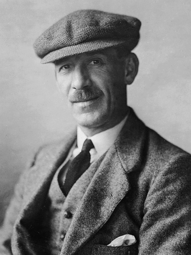 circa 1920: British golfer Abe Mitchell.